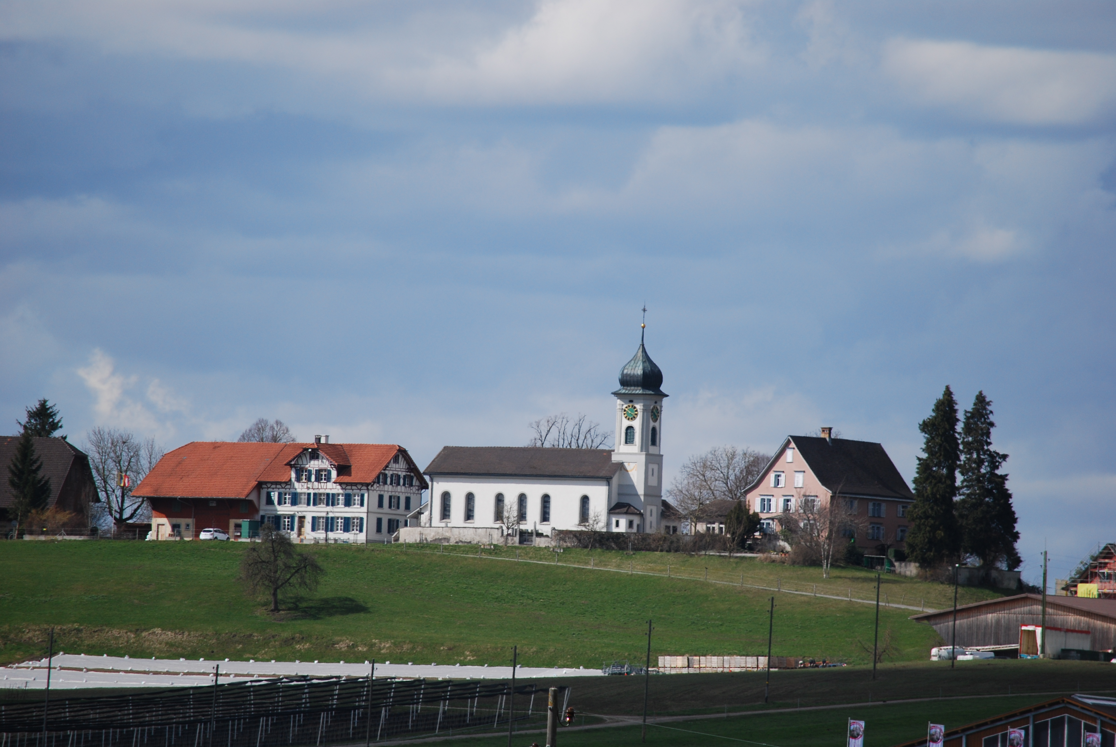 Wertbühl, municipality of Bussnang, canton of Thurgovia, Switzerland